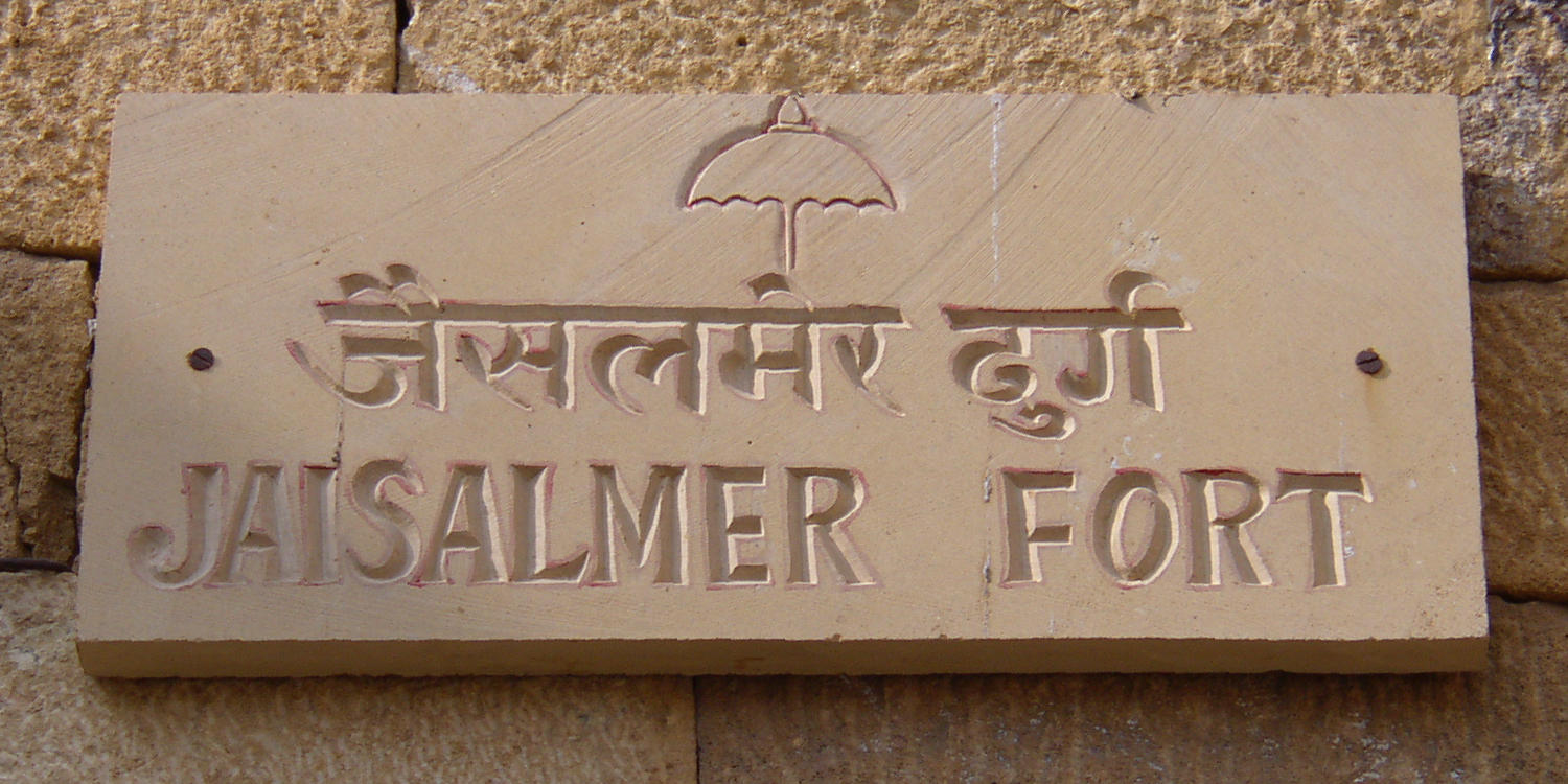 Sign in Jaisalmer in Rajasthan, India